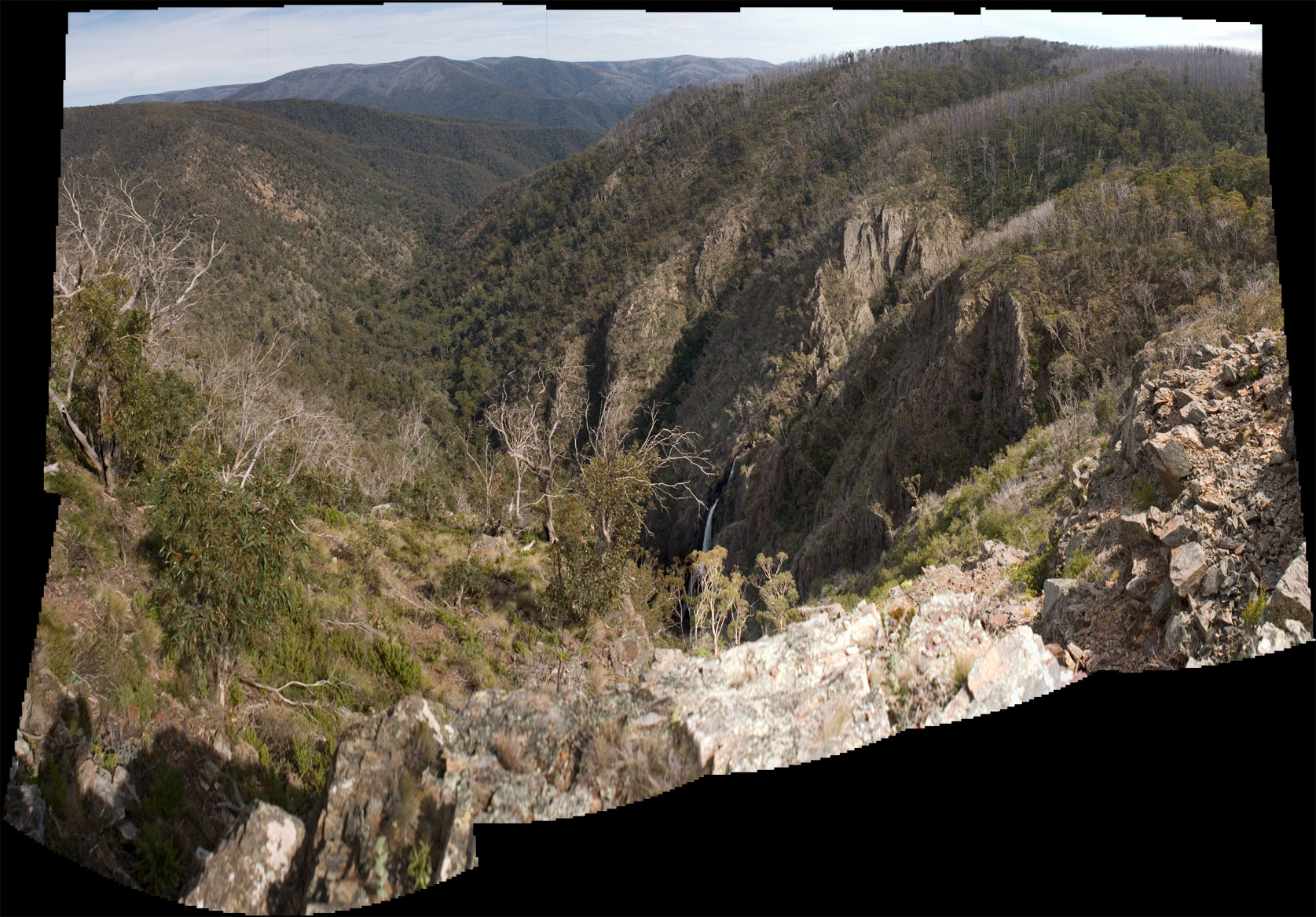 The view around Tin Mine Falls, Pilot Wilderness, New South Wales, Australia. This image is composed of several photographs stitched together.